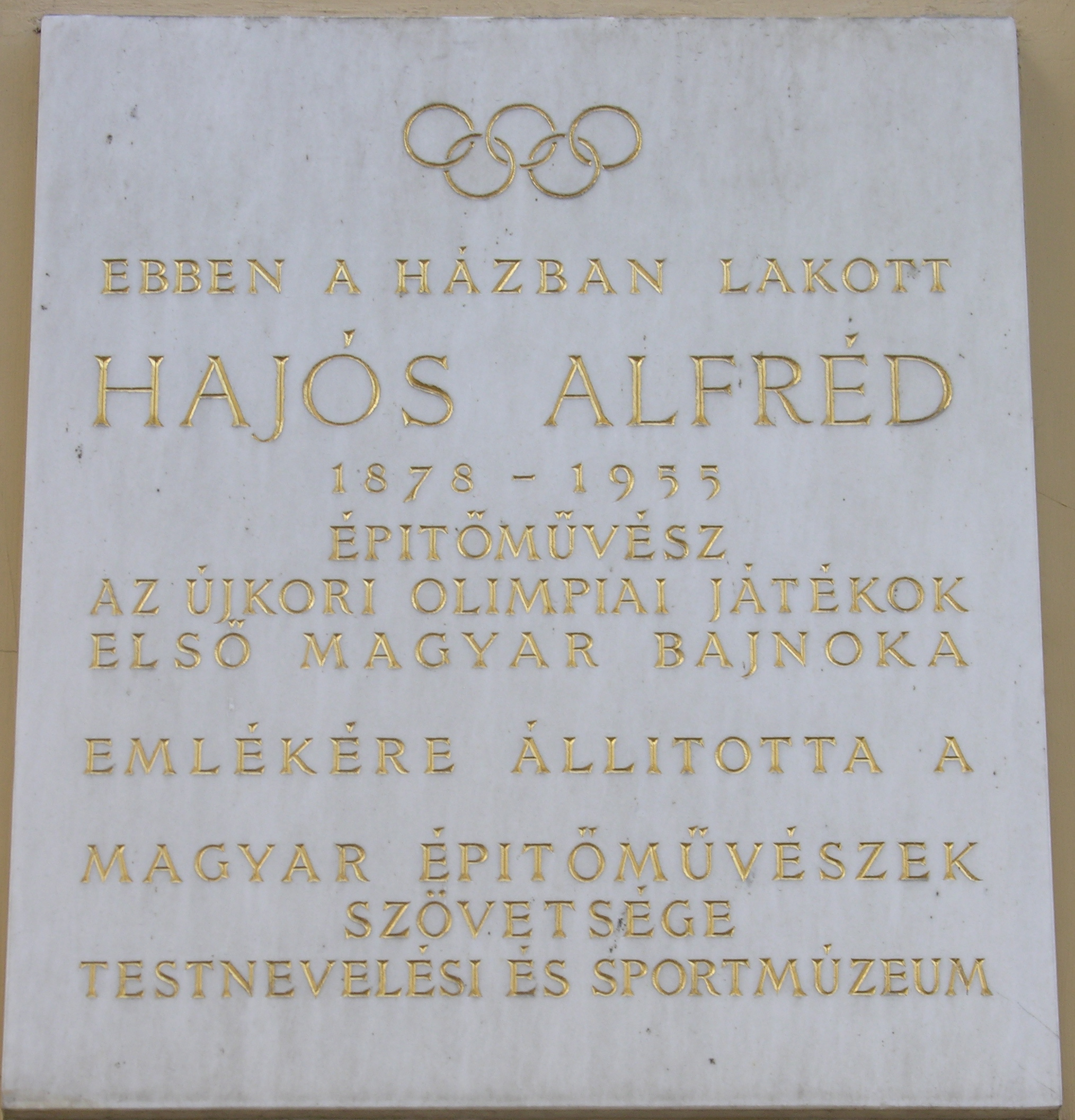 Commemorative plaque of Alfréd Hajós, Budapest District V, Báthori Street No 5